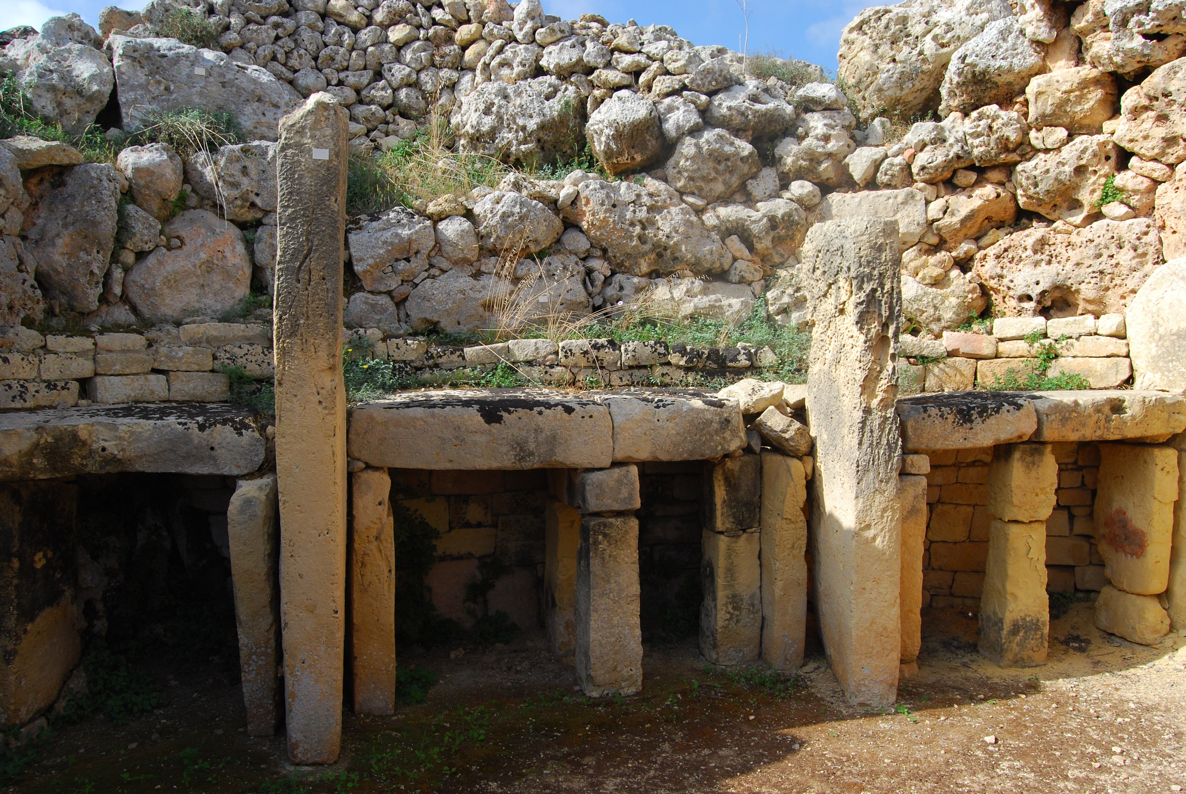 Megalithic temple Ġgantija at Gozo, Malta